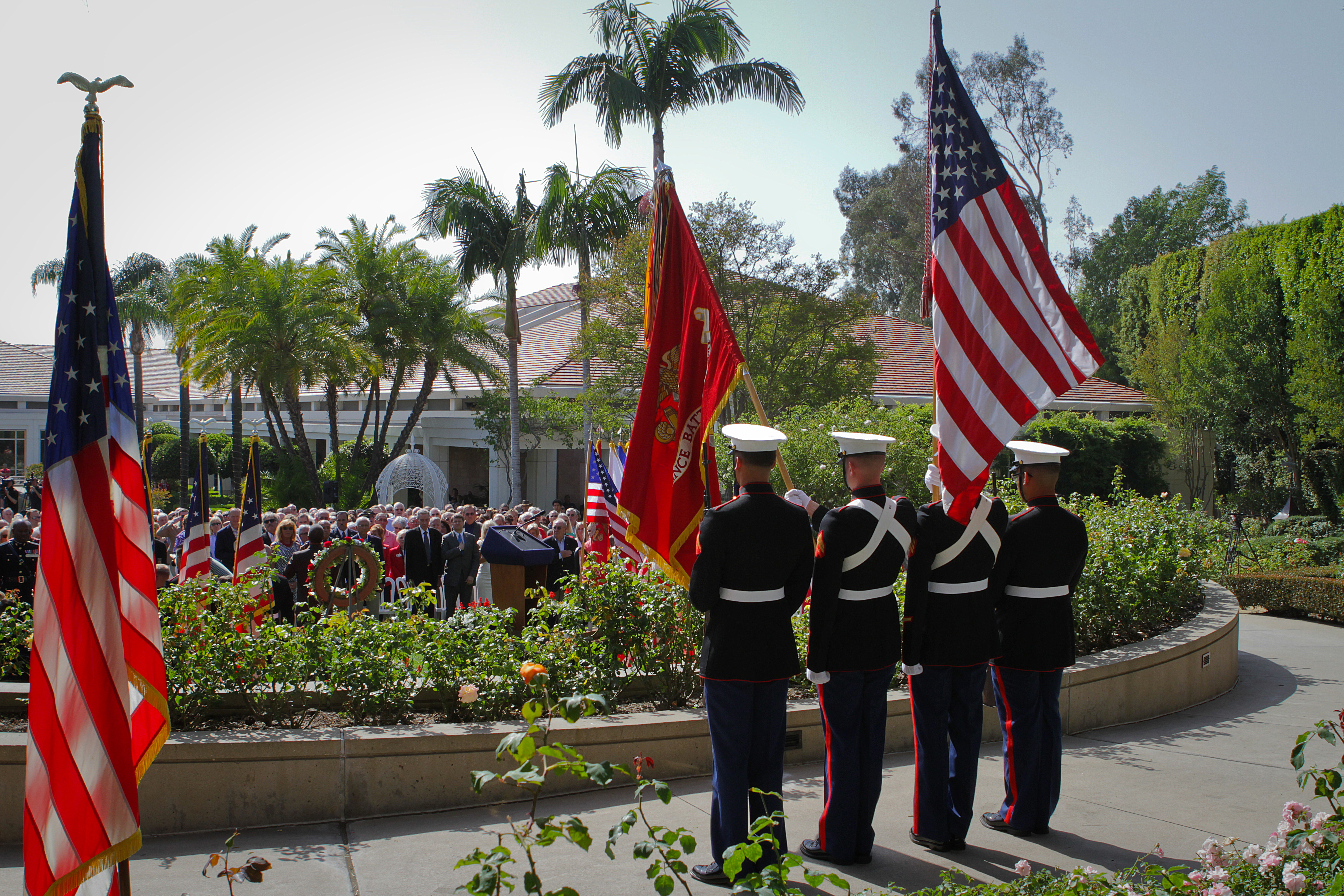 The 1st Reconnaissance Battalion color guard lower the Marine Corps colors for the duration of the national anthem during the Vietnam Prisoner of War 40th Annual Homecoming Reunion at the Richard Nixon Presidential Library and Museum here, May 23, 2013. Nearly 200 former Vietnam POWs and their families gathered at the Nixon Presidential Library on the 40th anniversary of when President Nixon hosted the service members for the largest dinner ever held at the White House, May 24, 1973, on the South Lawn. The battalion also provided a seven-man rifle detail that fired a 21-gun salute to honor those who fought and died during the Vietnam War. The 1st Marine Division Band supported the reunion by playing ceremonial tunes for the event.